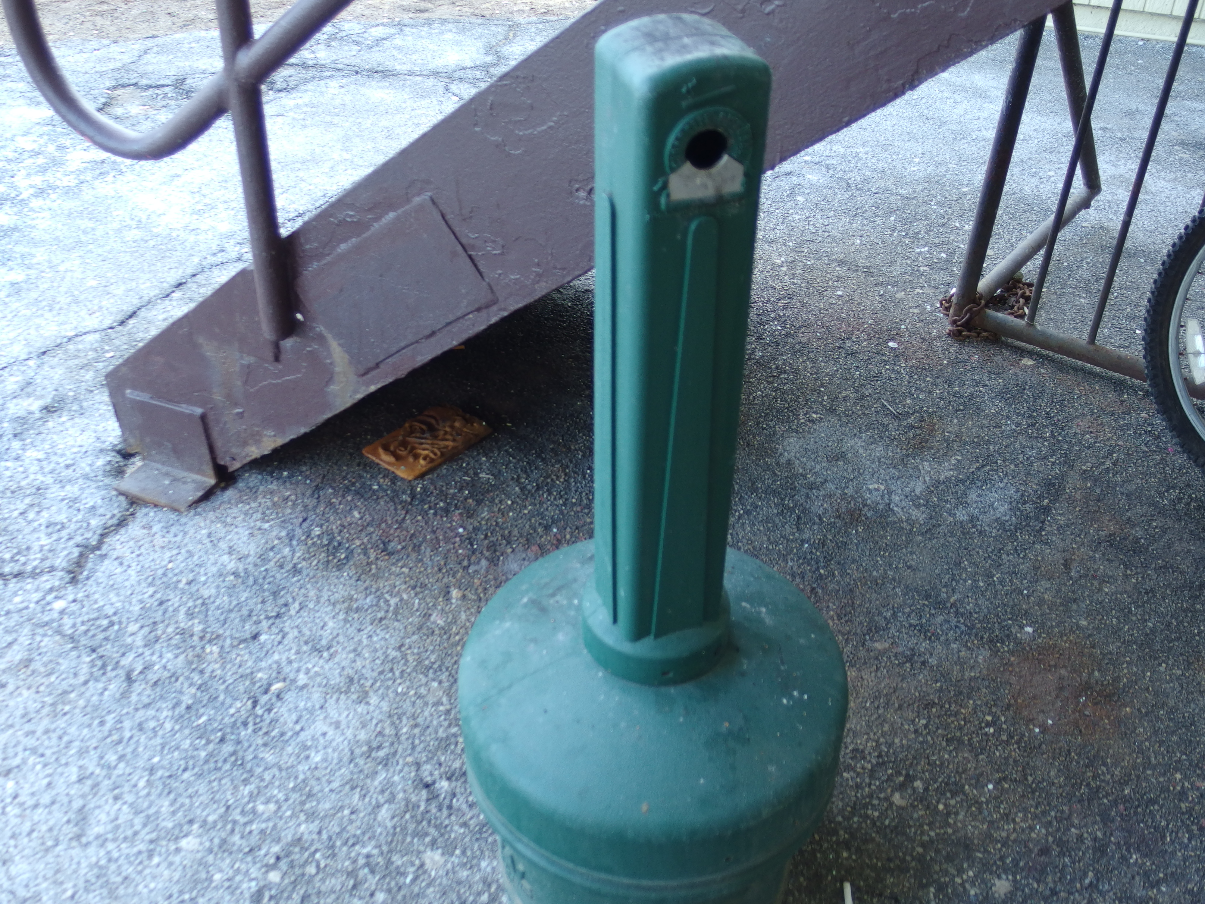 white plains, NY.